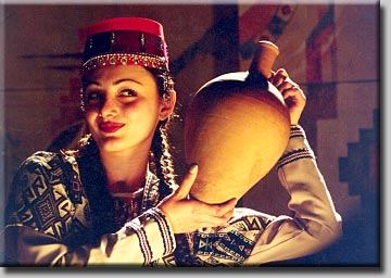 The Dance Ensemble of Armenia "BERT"